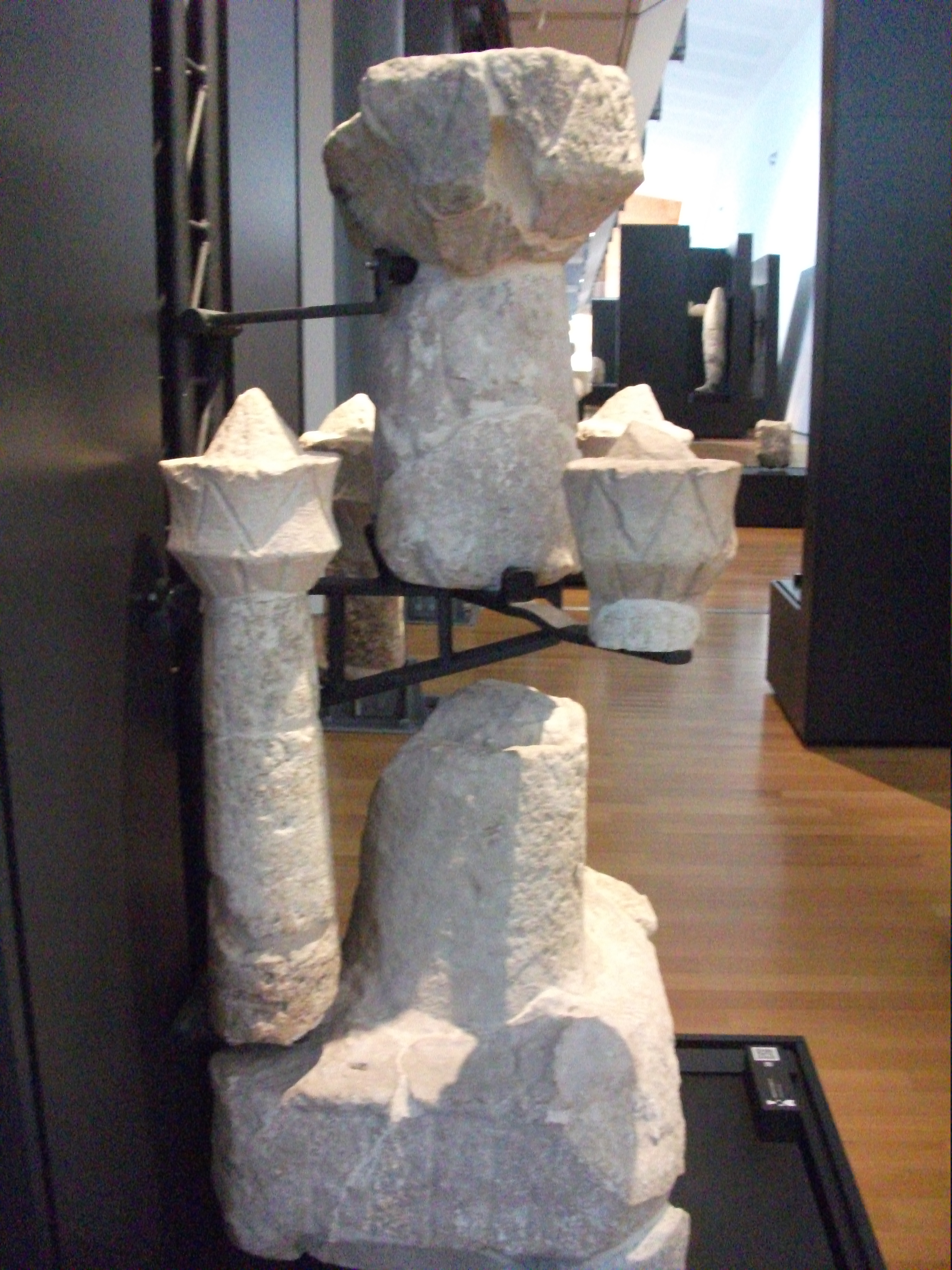 Nuraghe model, sculpture, sardinia, prehistory, Nuragic civilization